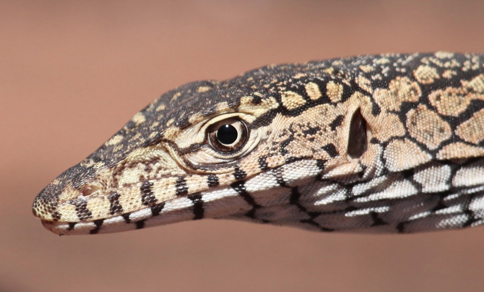 Perentie (Varanus giganteus), Northern Territory, Australia